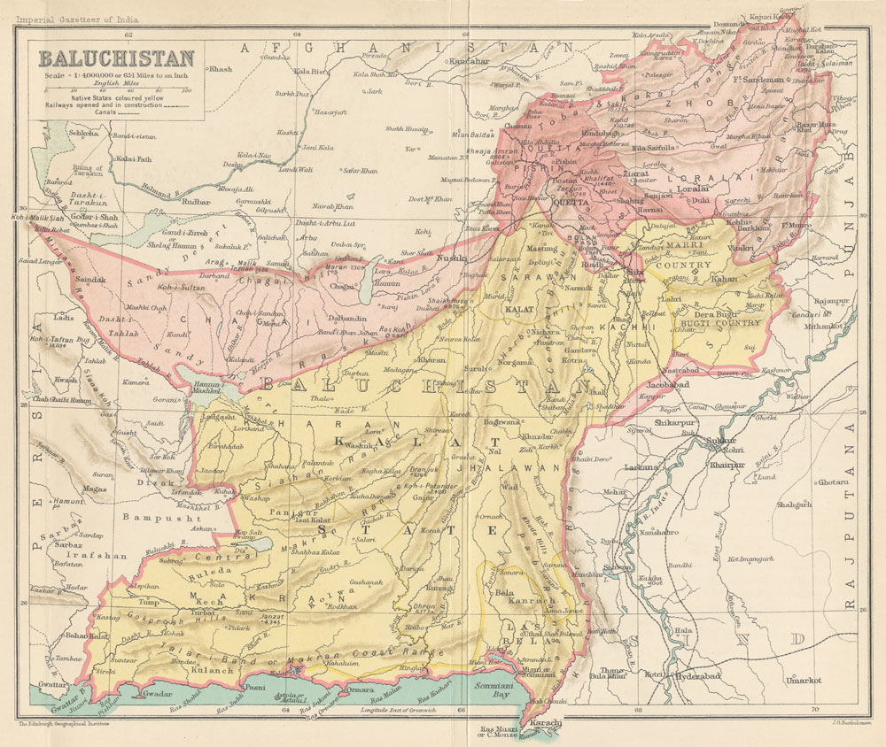 Map of Baluchistan from The Imperial Gazetteer of India Volume 6, opposite page 336.. New edition, published under the authority of His Majesty's Secretary of State for India in Council. Oxford: Clarendon Press, 1907-1909. Scale: 1:6,000,000. 1 in. to 94.6 miles. Native States colored yellow.